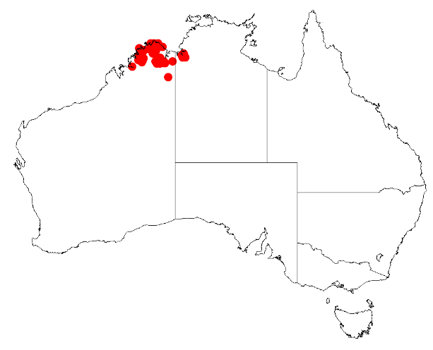 Acacia kelleri Occurrence data from Australasia Virtual Herbarium downloaded from on 8 December 2018